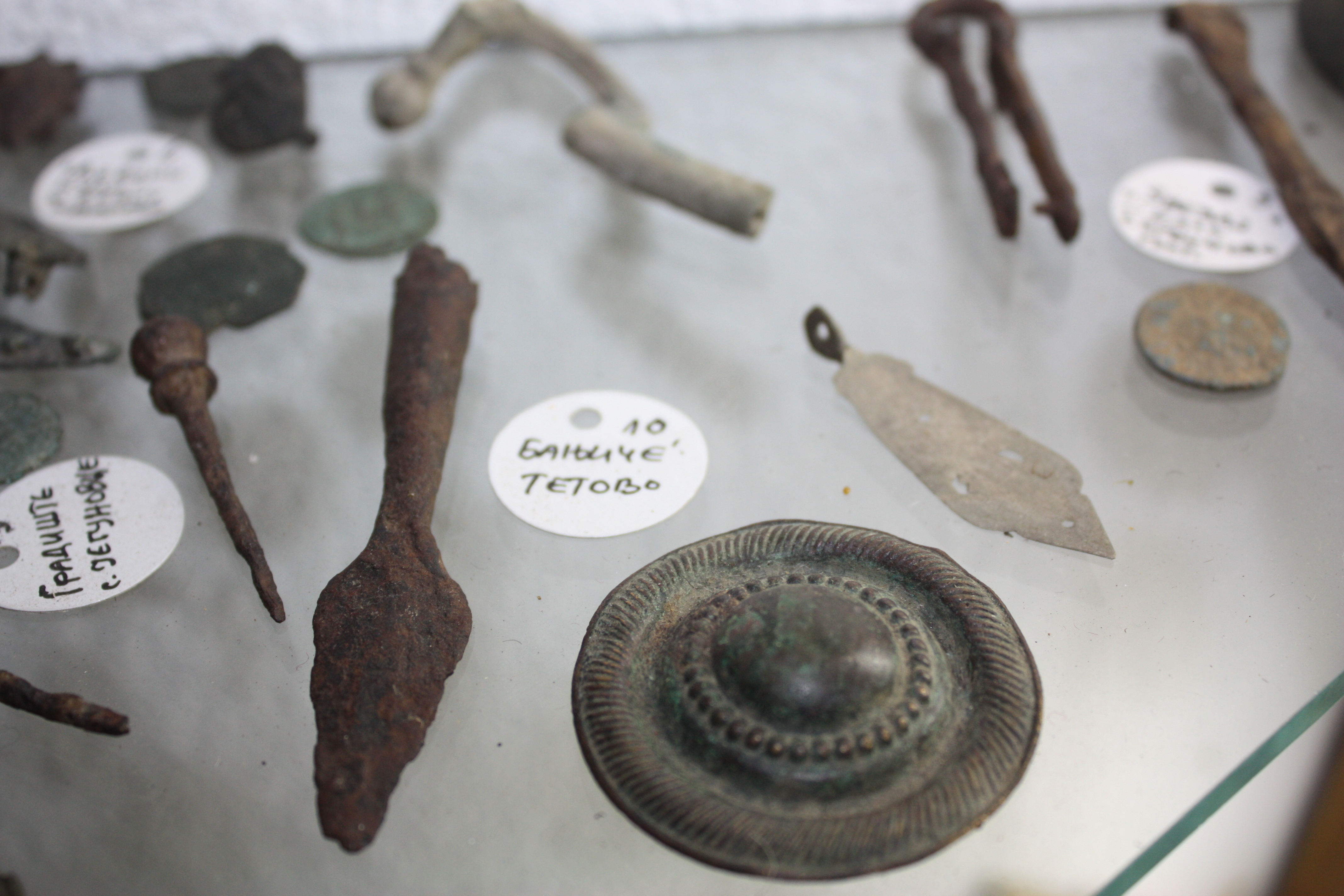 The World’s Smallest Ethnological Museum in Džepčište near Tetovo in Macedonia